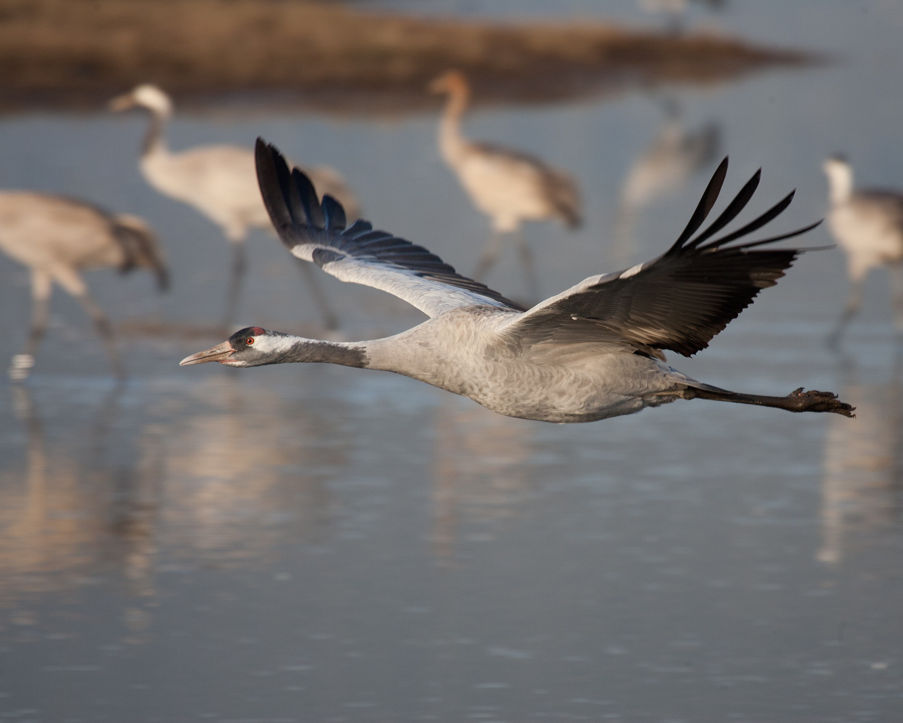 Common crane in flight at Hula valley